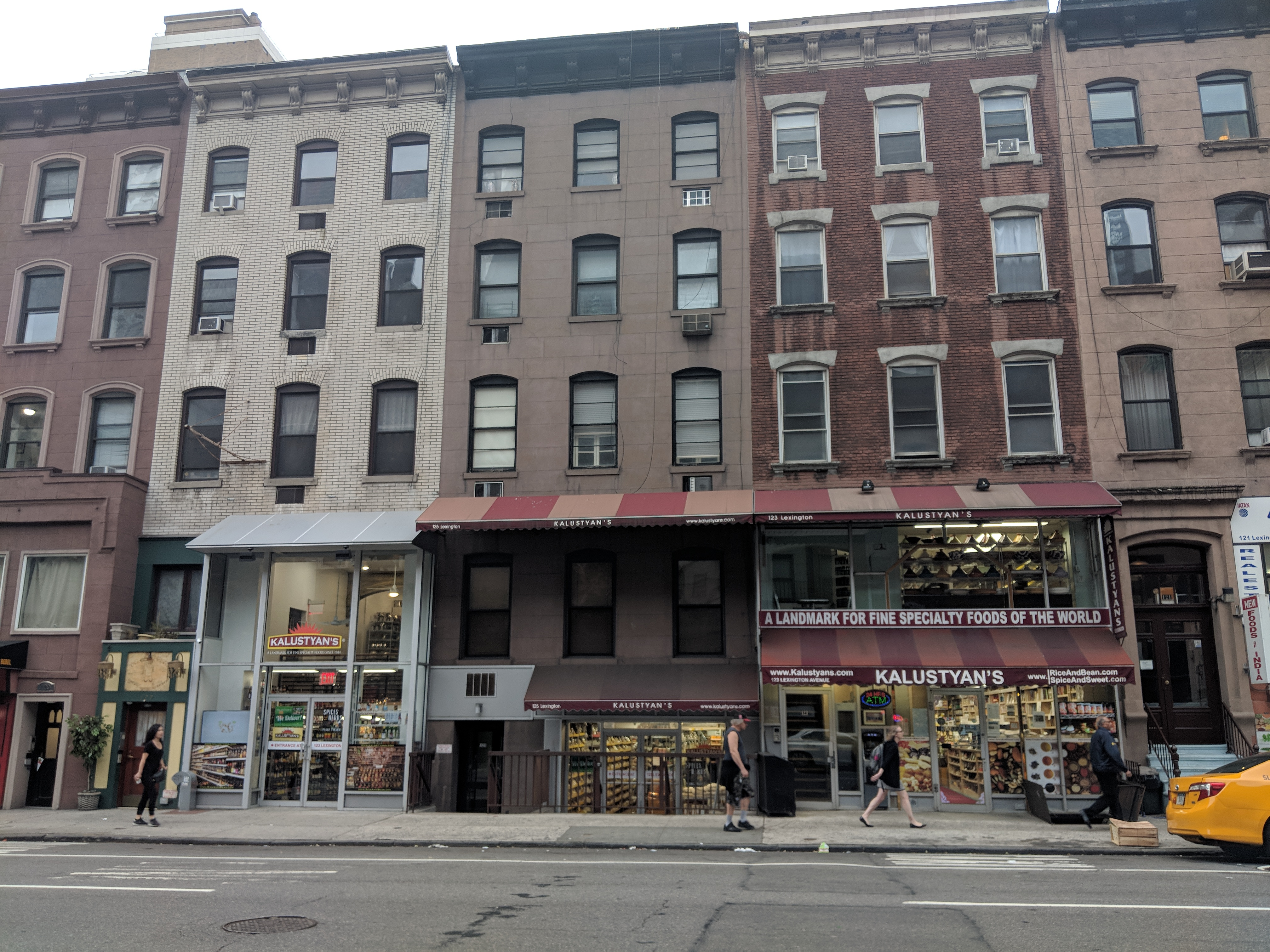 Storefront for Kalustyan's, at the former Chester A Arthur house, in June 2018.